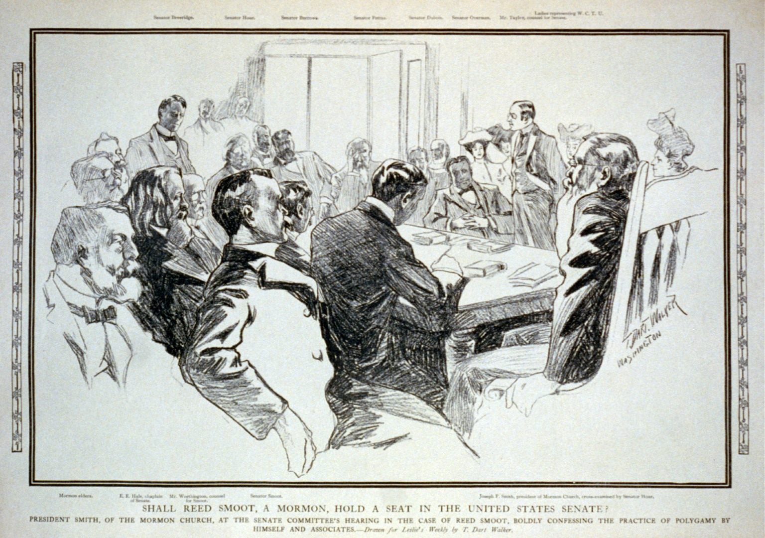 Picture showing Joseph F. Smith being cross-examined by Senator George Frisbie Hoar. Caption: "Shall Reed Smoot, a Mormon, hold a seat in the United States Senate? President Smith, of the Mormon Church, as the Senate Committee's hearing in the case of Reed Smoot, boldly confessing the practice of polygamy by himself and associates." Illus. in: Frank Leslie's Illustrated Newspaper, (1904 March 17), p. 245.